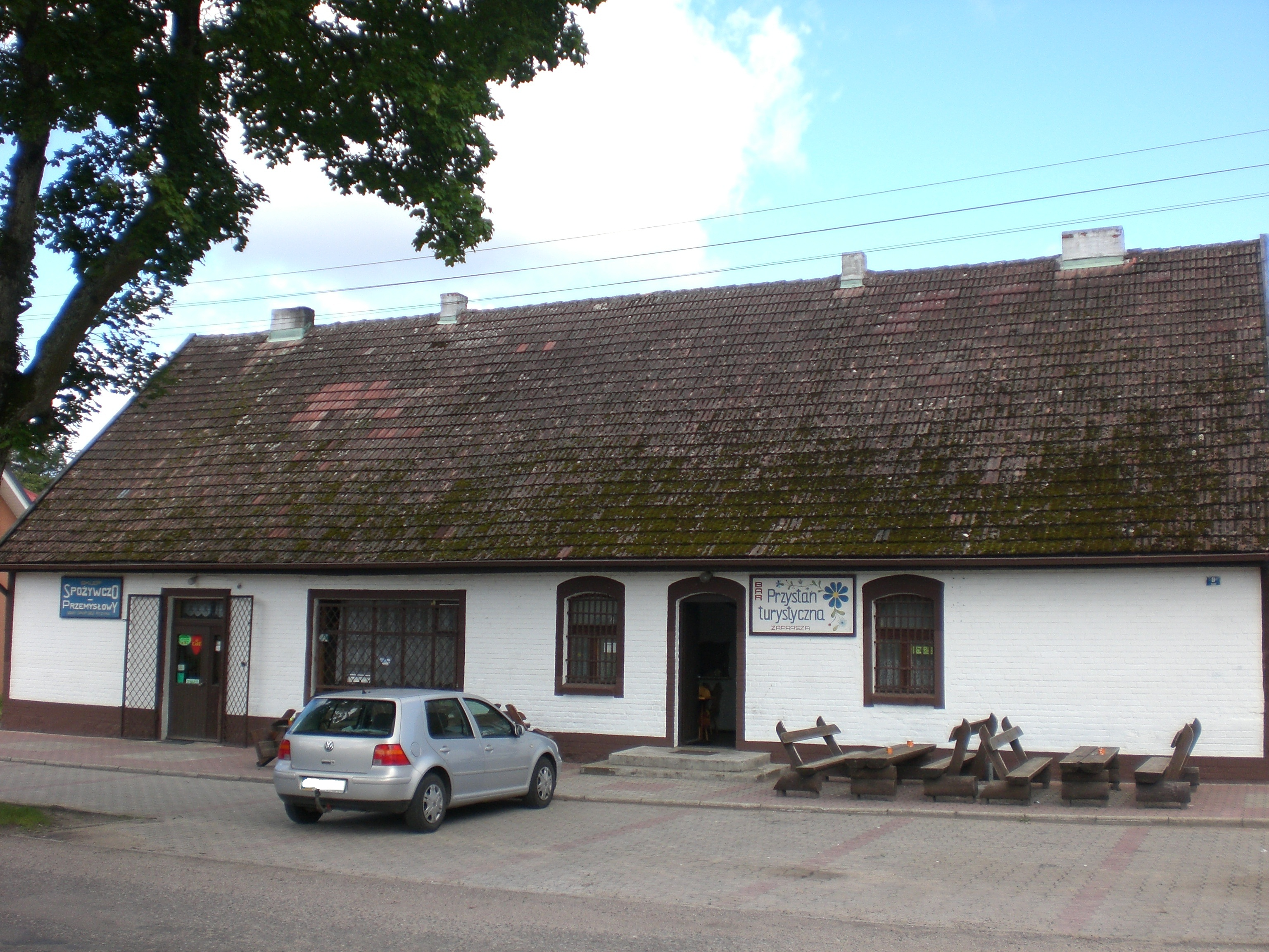 Jasień Kaszëbsczi: Jaséń